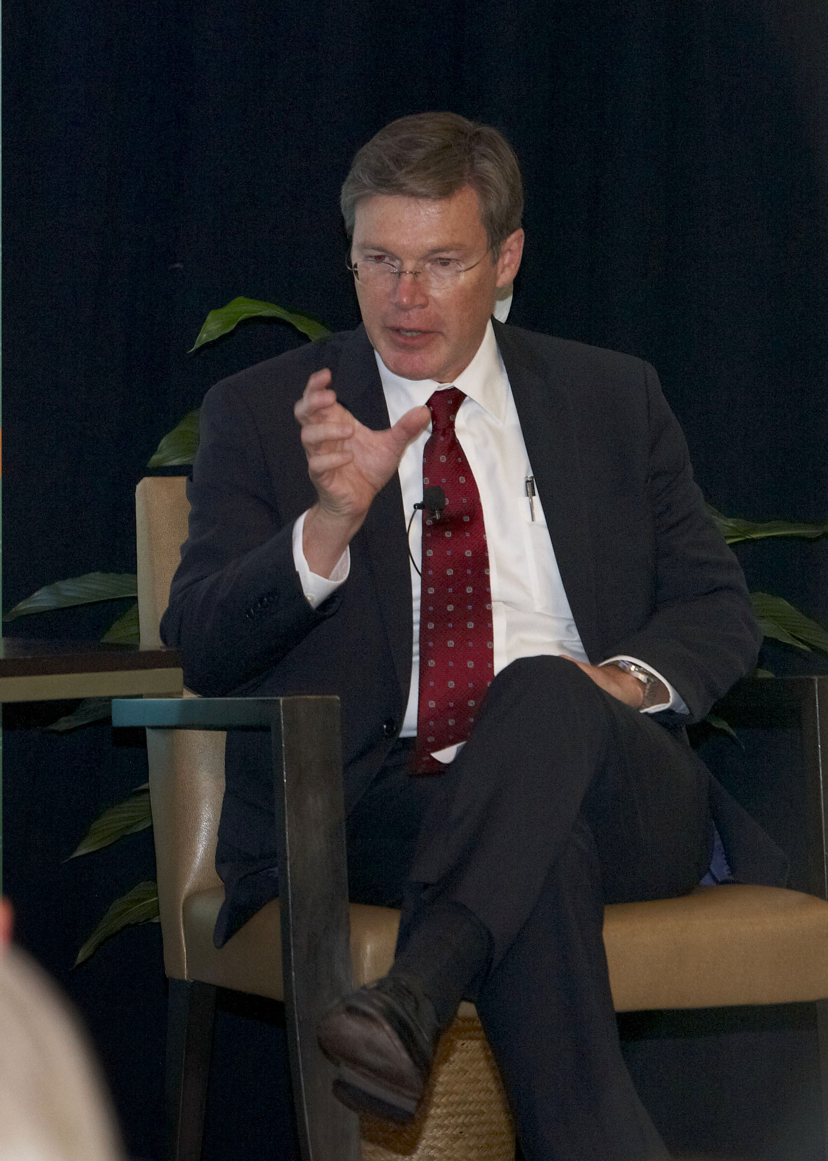 Stewart Leeth, Chief Sustainability Officer, Smithfield Foods.